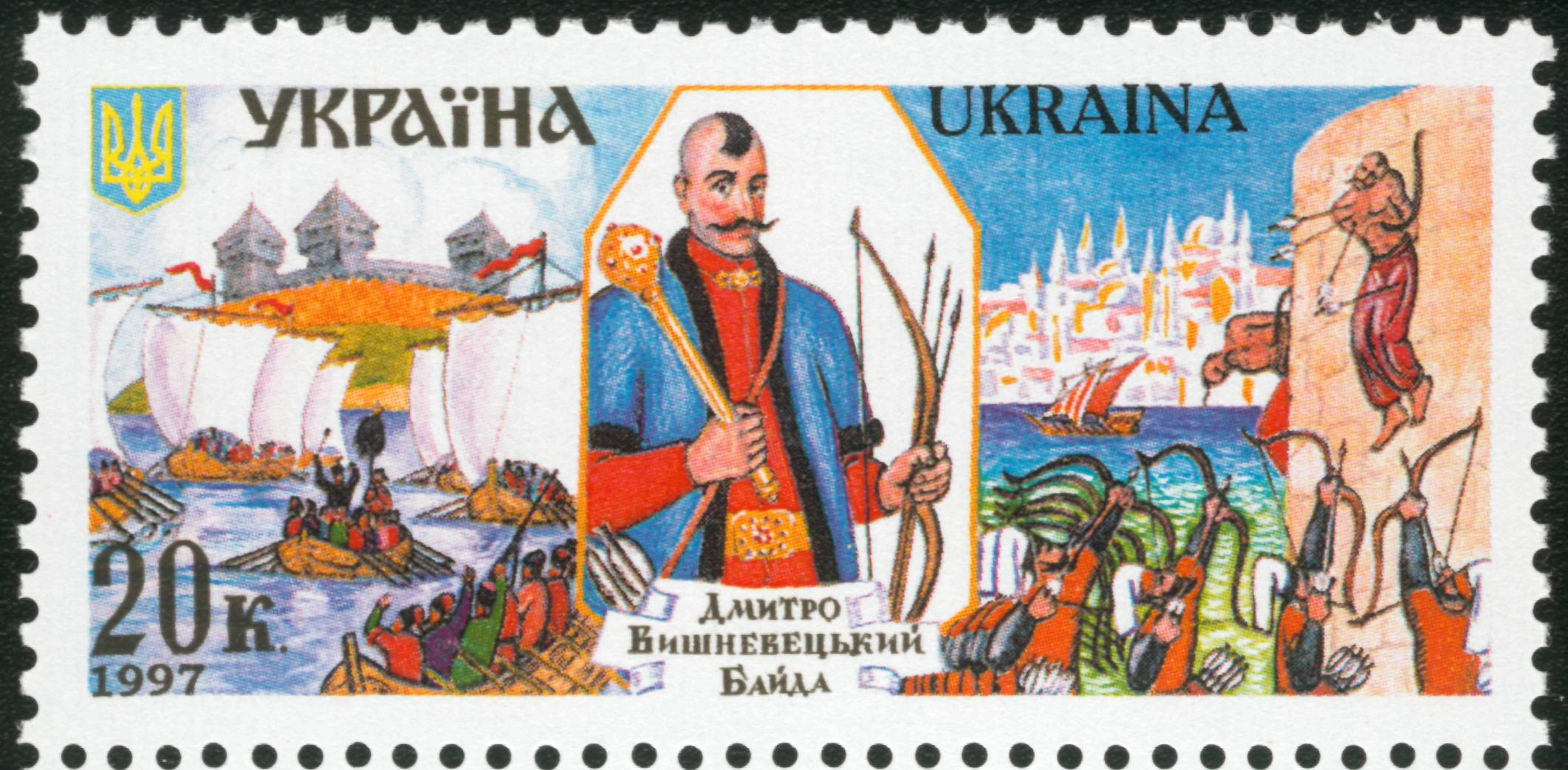 Stamp of Ukraine s157, 1997 Гетман Байда Вишневецкий.